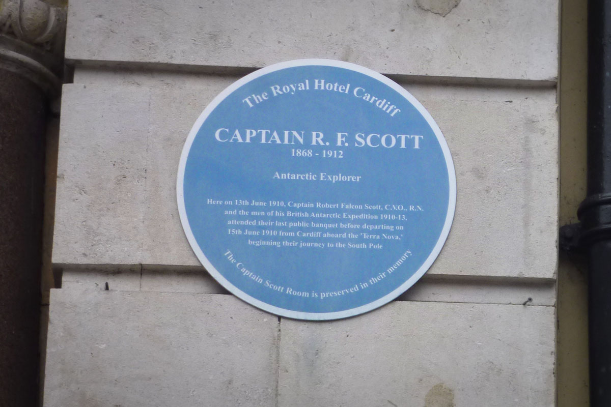 Blue plaque on Royal Hotel, Cardiff, commemorating the fundraising banquet on 13 June 1910 attended by Robert Falcon Scott before his ill-fated voyage to Antartica. This image represents an Open Plaques entry #13127.